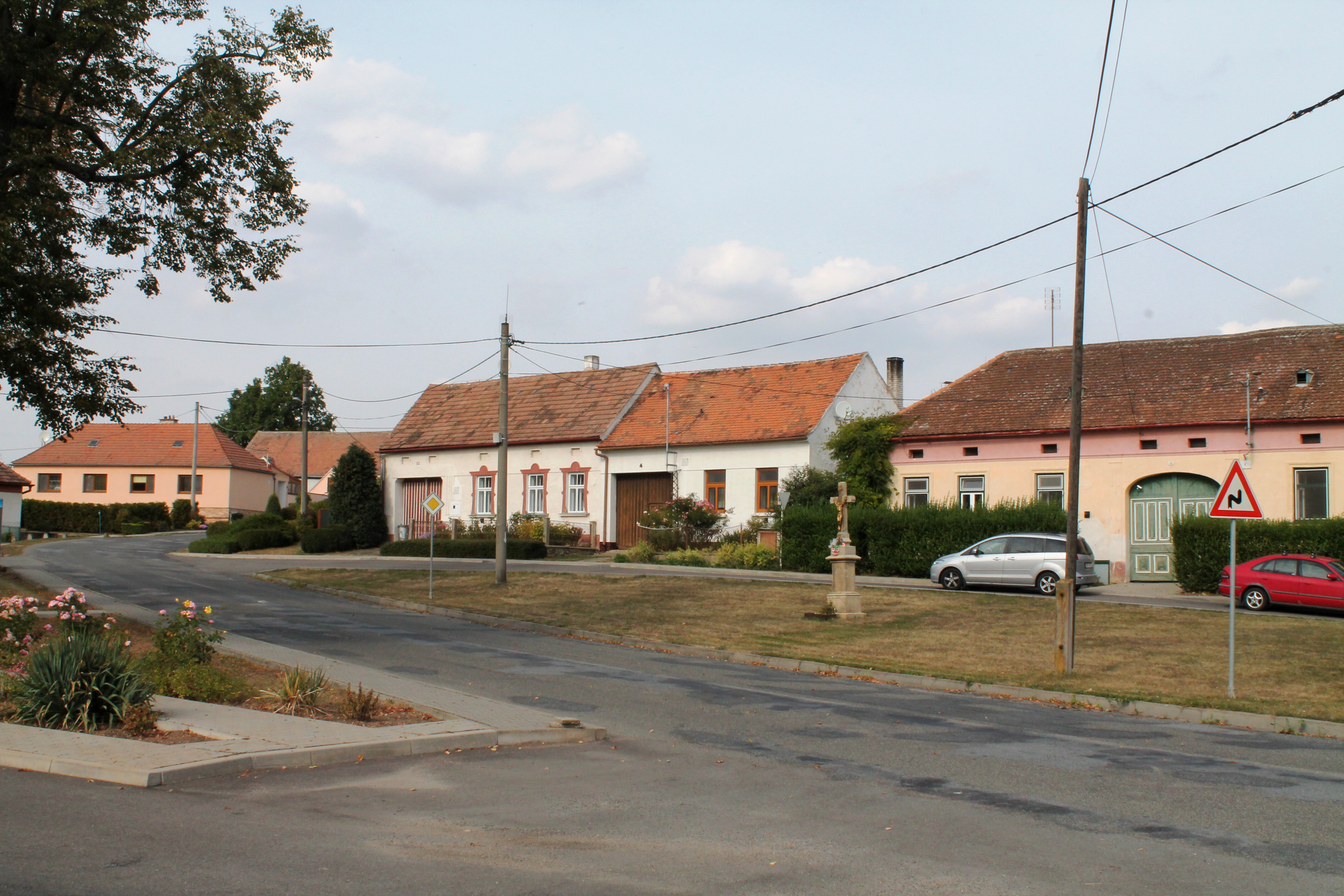 Vevčice, Znojmo District, Czech Republic This photograph was taken during a group photography field trip by Brno Wikipedians: 2016-09-28.